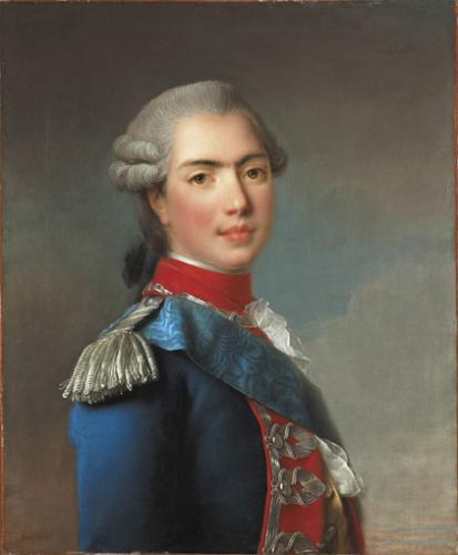 Louis Stanislas, Comte de Provence (1755-1824) in his youth